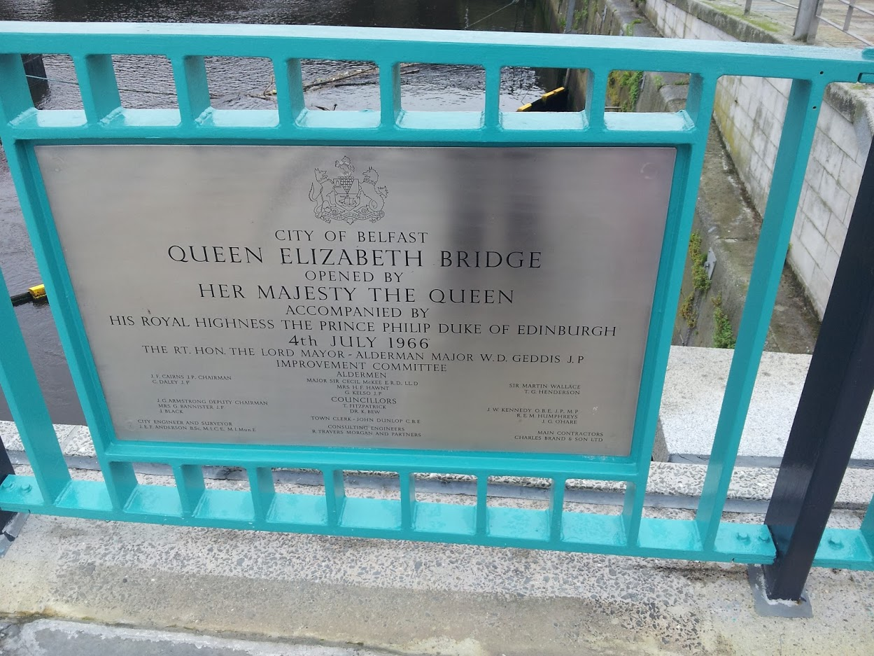 Queen Elizabeth Bridge Belfast Plaque, commemorating opening on 4 July 1966